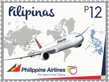 Philippine Airlines 75 “ The Heart 0f The Filipino”